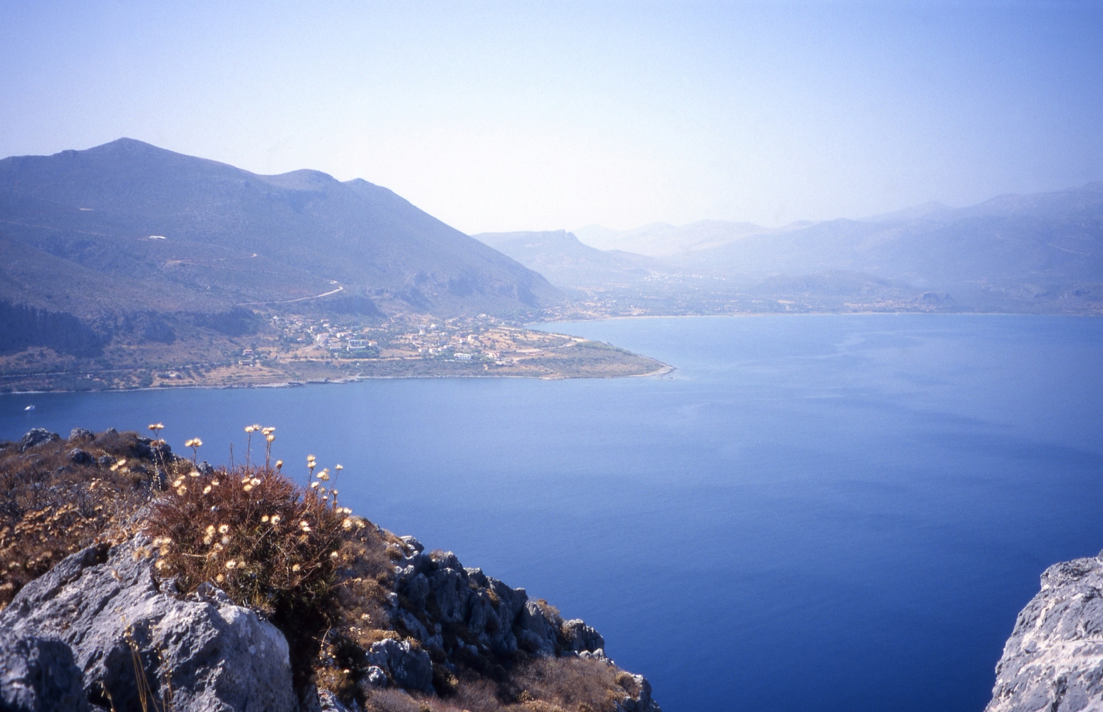 Bay of Monemvasia from top of the rock